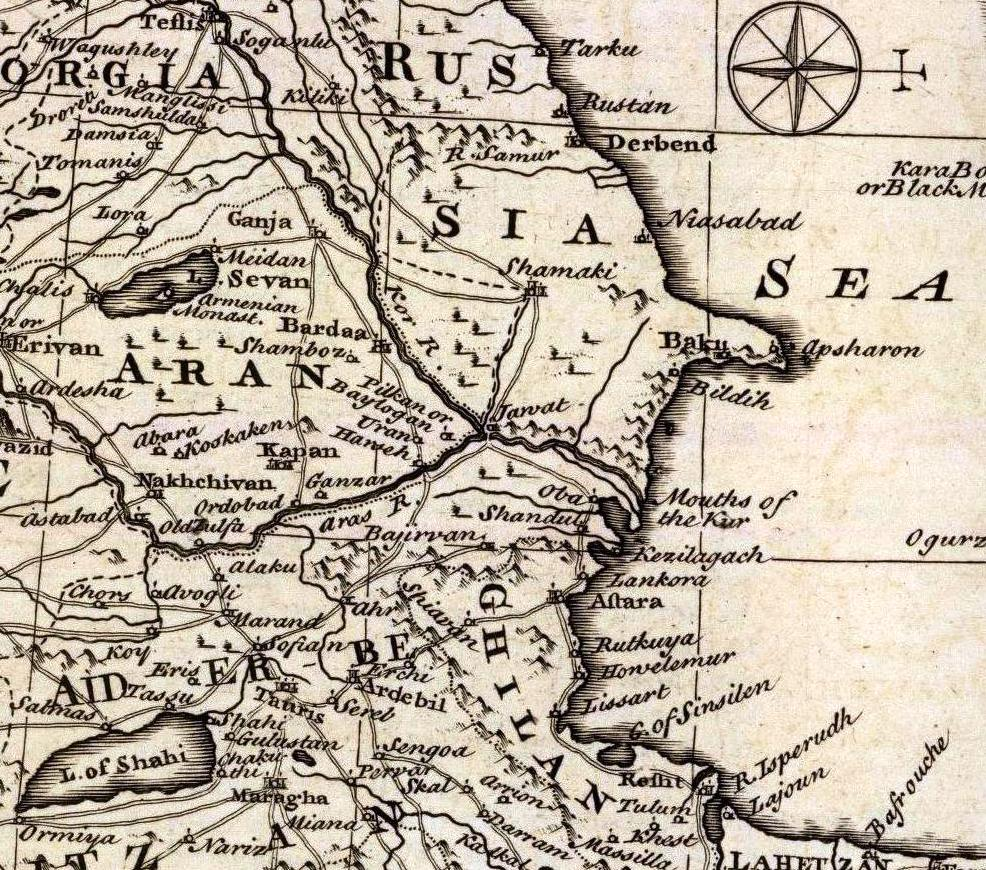 A new & accurate map of Persia, with the adjacent countries. Drawn from the most approved modern maps &c, the whole being regulated by astronl. observations. By Emanl. Bowen. (London: Printed for William Innys, Richard Ware, Aaron Ward, J. and P. Knapton, John Clarke, T. Longman and T. Shewell, Thomas Osborne, Henry Whitridge ... M.DCC.XLVII)